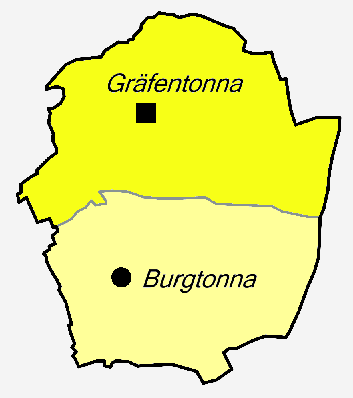 Map of Tonna Village.